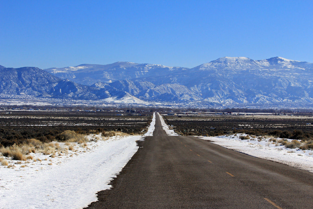 The Lund Highway runs east from Lund to Cedar City in Utah. This is the paved section with Cedar City and Cedar Breaks in the background.